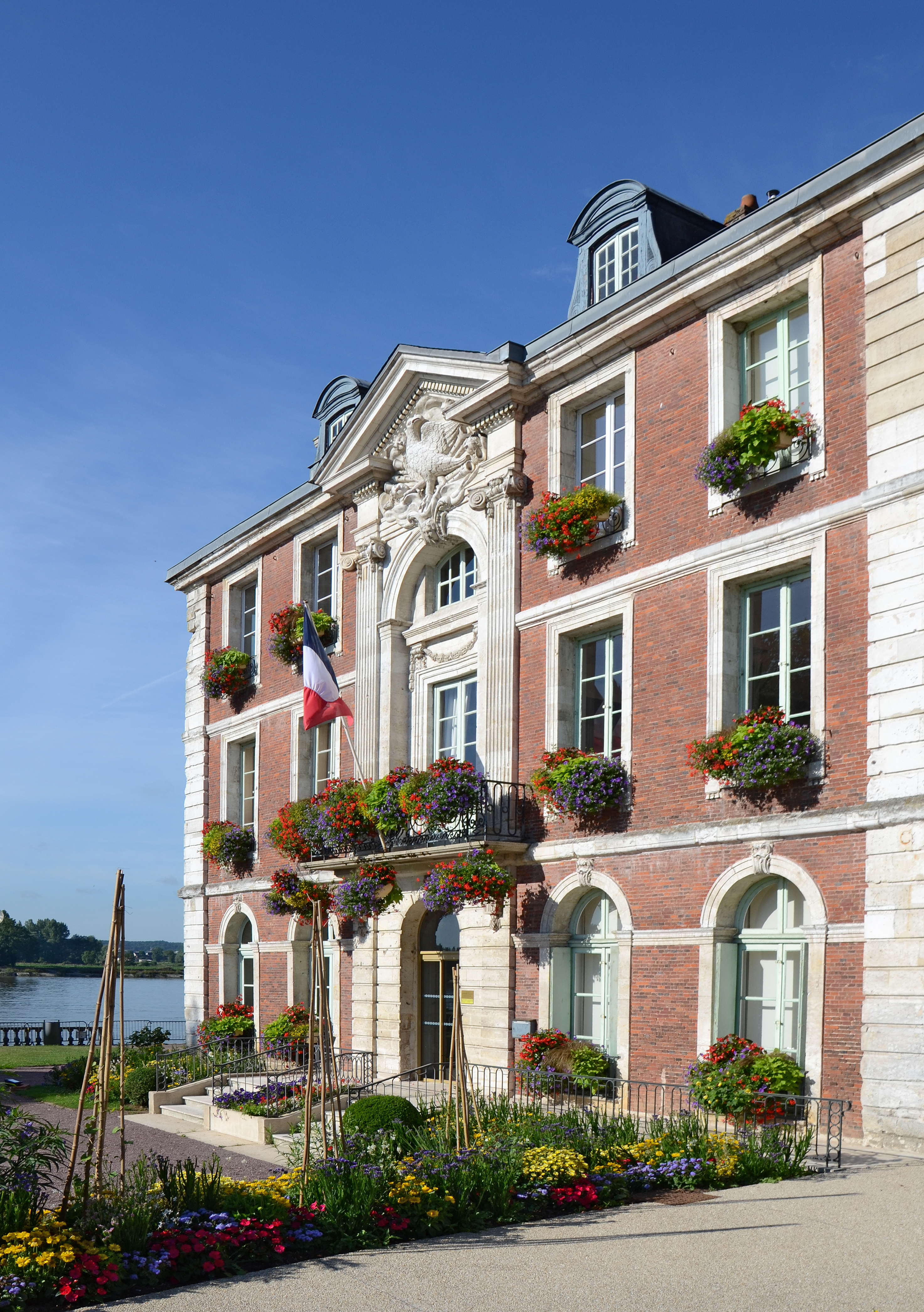 Town hall of Caudebec en Caux, Seine Maritime, France